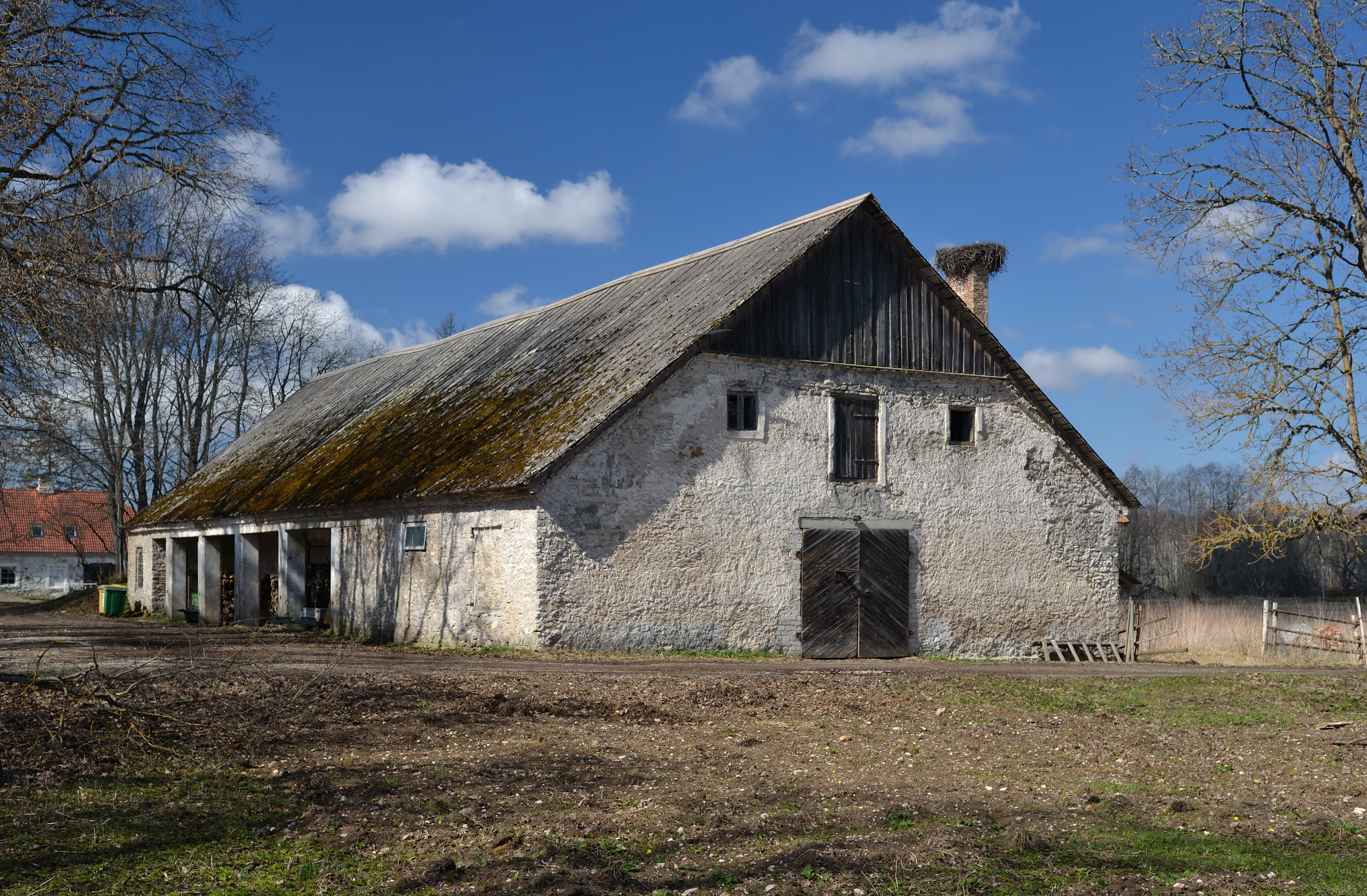 Esna manor granary-dryer